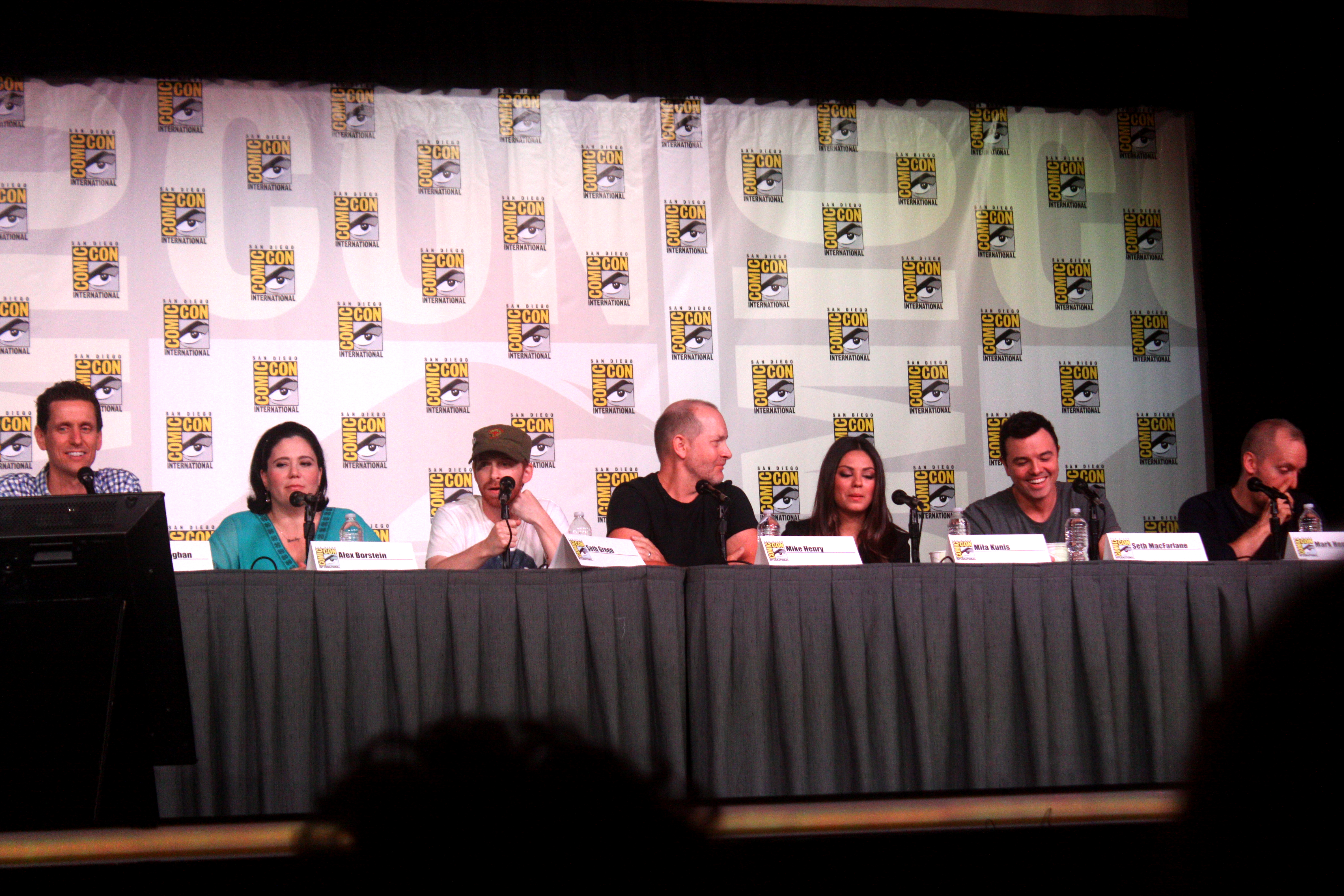 The Family Guy cast speaking at the 2012 San Diego Comic-Con International in San Diego, California.